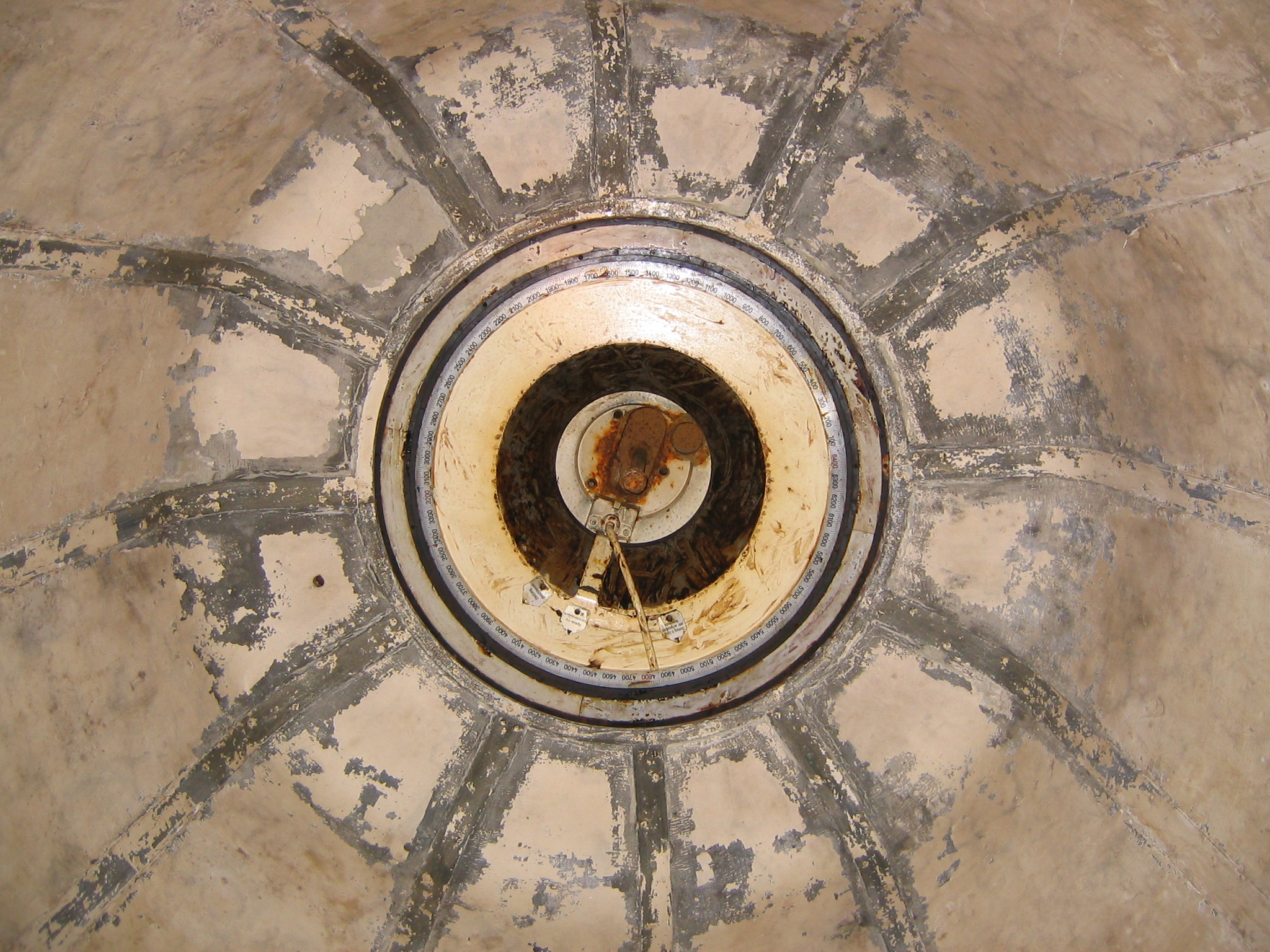 Inside a copular for M19 Maschinengranatenwerfer, a german fully automatic grenade launcher built during WWII. The copular was designated 424p1, and was 250 mm thick. This copular is on Fjell festning.